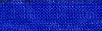 Virtuti militari(russian award) ribbon bar